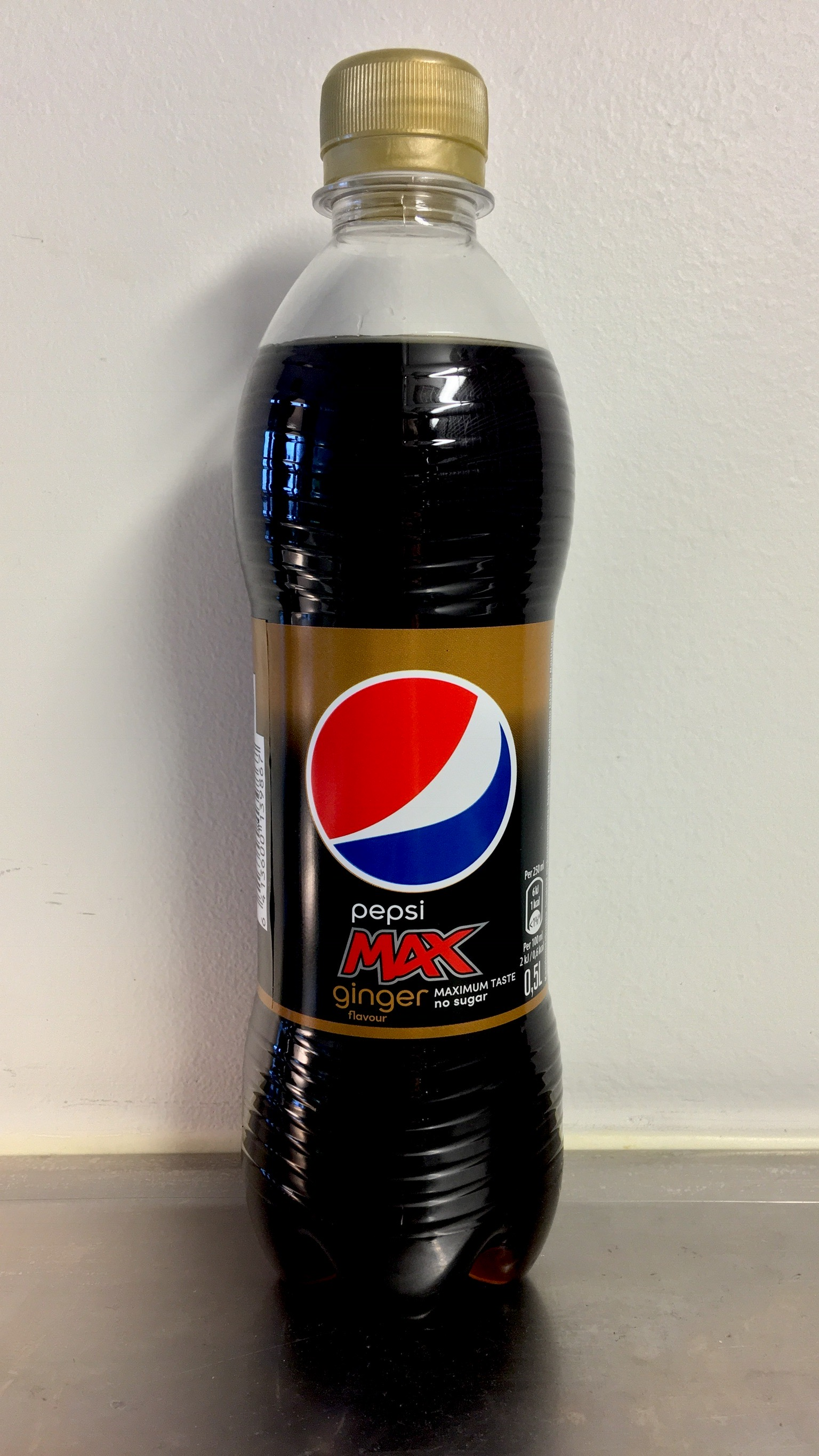 0.5 litre bottle of Pepsi Max Ginger as bottled and sold in Finland